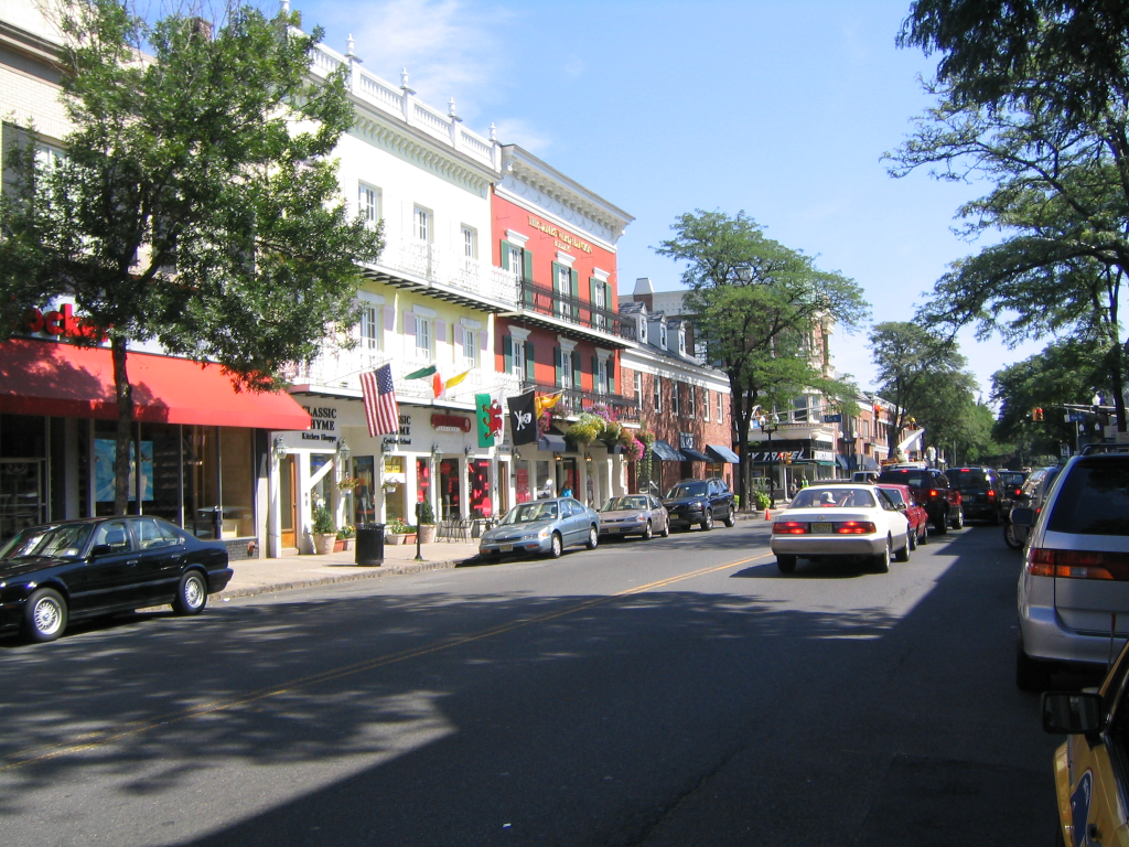 Downtown Westfield, NJ taken on July 21, 2005